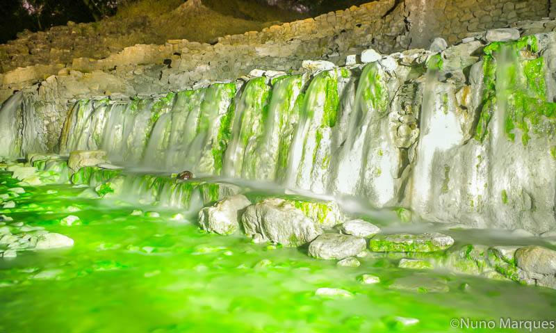 There is a hidden hot spring in East Timor called “Marobo hot spring.” Although the quality of the hot spring and landscape are extraordinary, reaching it is not easy. The hot spring is surrounded by mountains, abundant with nature such as banana trees, and situated next to the remains of a stone building constructed by the Portuguese. Everything is wild nature itself. According to the data, the quantity of hot water is two thousand liters per minute, and the hot spring consists mainly of calcium, sodium, and sulfur, which is effective for beautiful skin, skin disease, women’s disease, etc. The spring water is drinkable and effective for diabetes, etc.